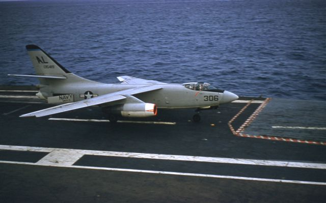 A U.S. Navy Douglas A3D-1 Skywarrior (BuNo 135419) of Heavy Attack Squadron 3 (VAH-3) "Sea Dragons" landing aboard the carrier USS Franklin D. Roosevelt (CVA-42). VAH-3 was assigned to Carrier Air Group 17 (CVG-17) aboard the Franklin D. Roosevelt for a deployment to the Mediterranean Sea from 12 July 1957 to 5 March 1958. The aircraft wears the tailcode "AL" which was used for CVG-17 only during that deployment.